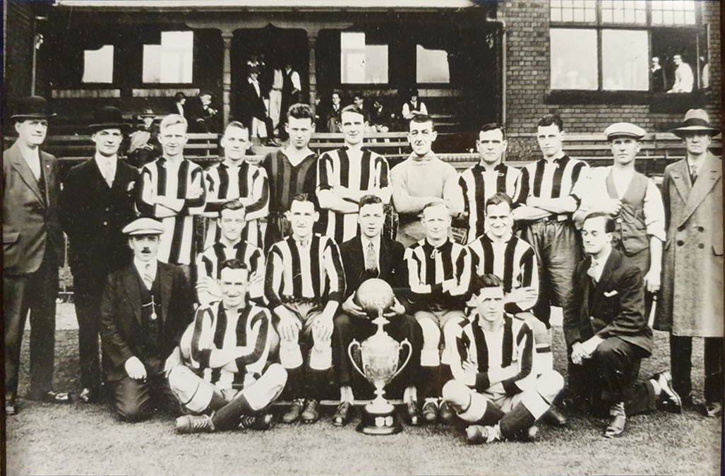 Glossop North End AFC team of 1927-28 sat outside the North Road clubhouse